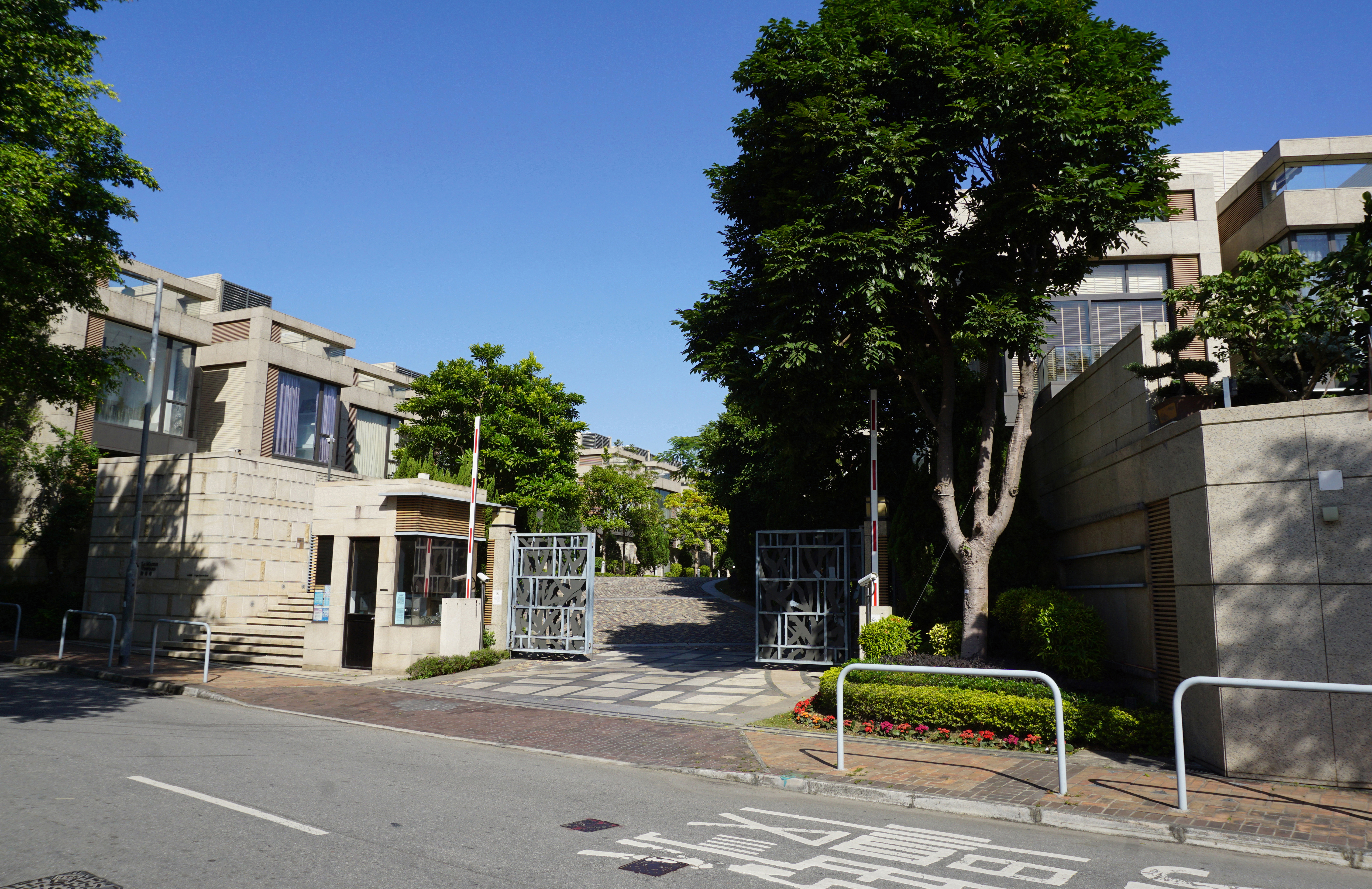 La Maison Vineyard in Ngau Tam Mei, Hong Kong.